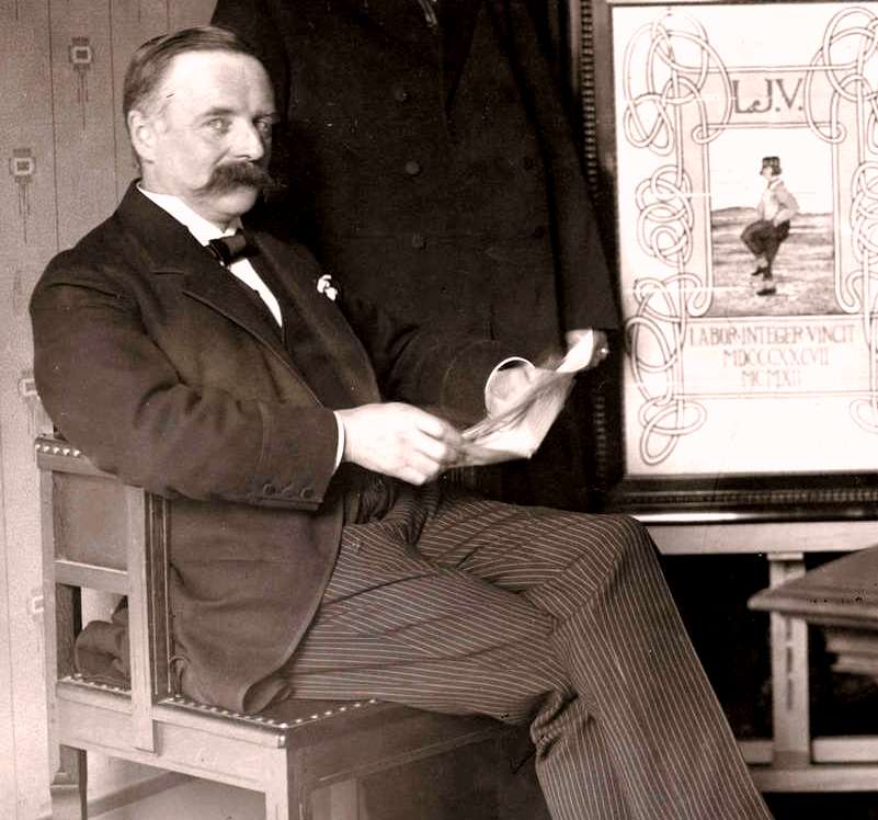 L. J. Veen op een feest ter viering van de uitgeverij